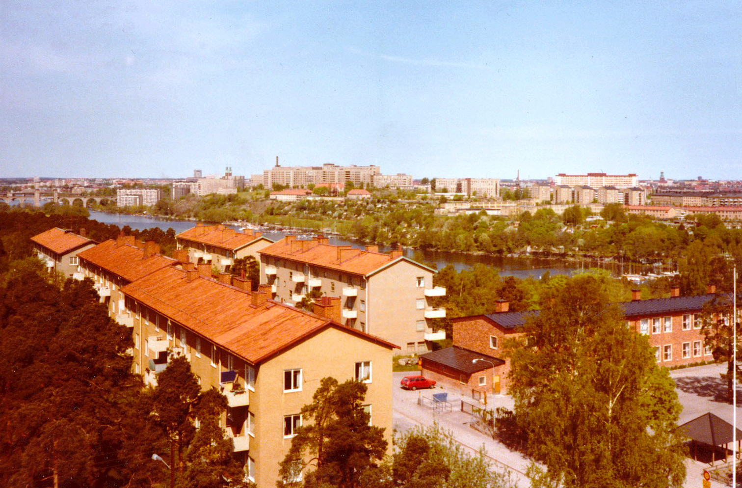 View northwest from Gullmarsvägen 39, Skarnskvarns School seen at right